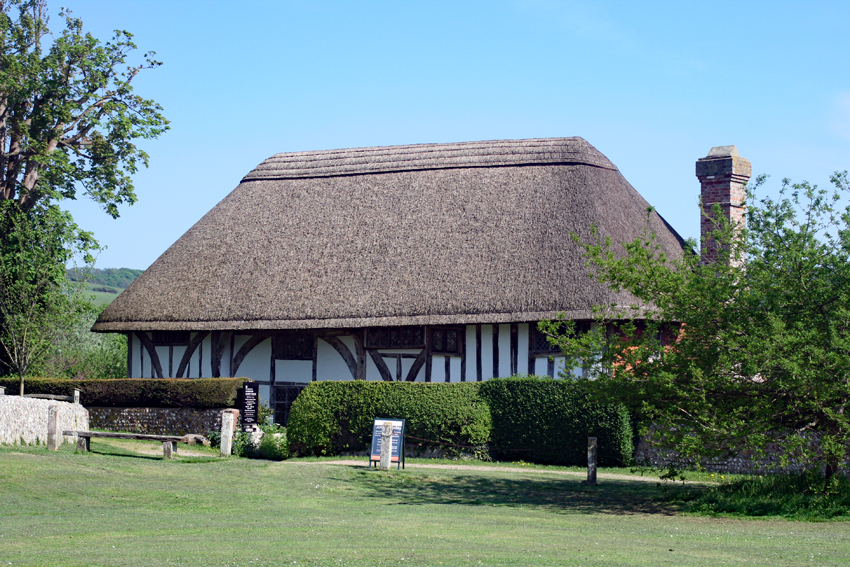 Alfriston clergy house, the first property purchased by the National Trust